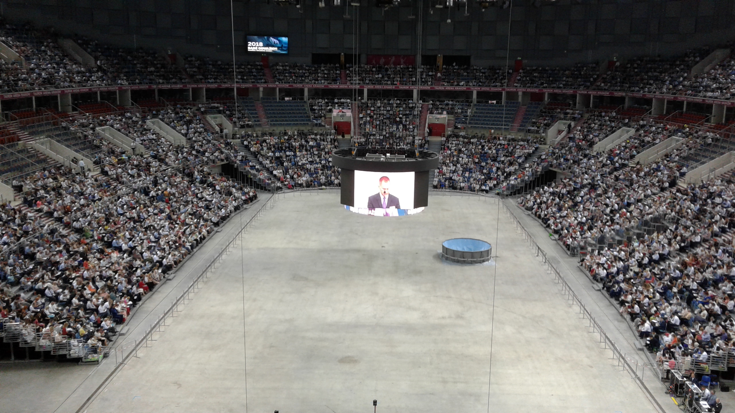 Convention Jehovah's Witnesses Tauron Arena Kraków 2018